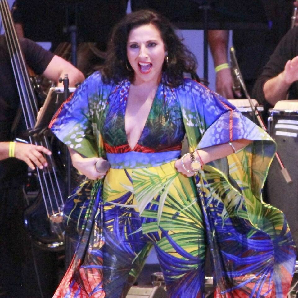 Melina Almodovar performing with salsa orchestra at Hollywood Salsa Festival 4/7/18